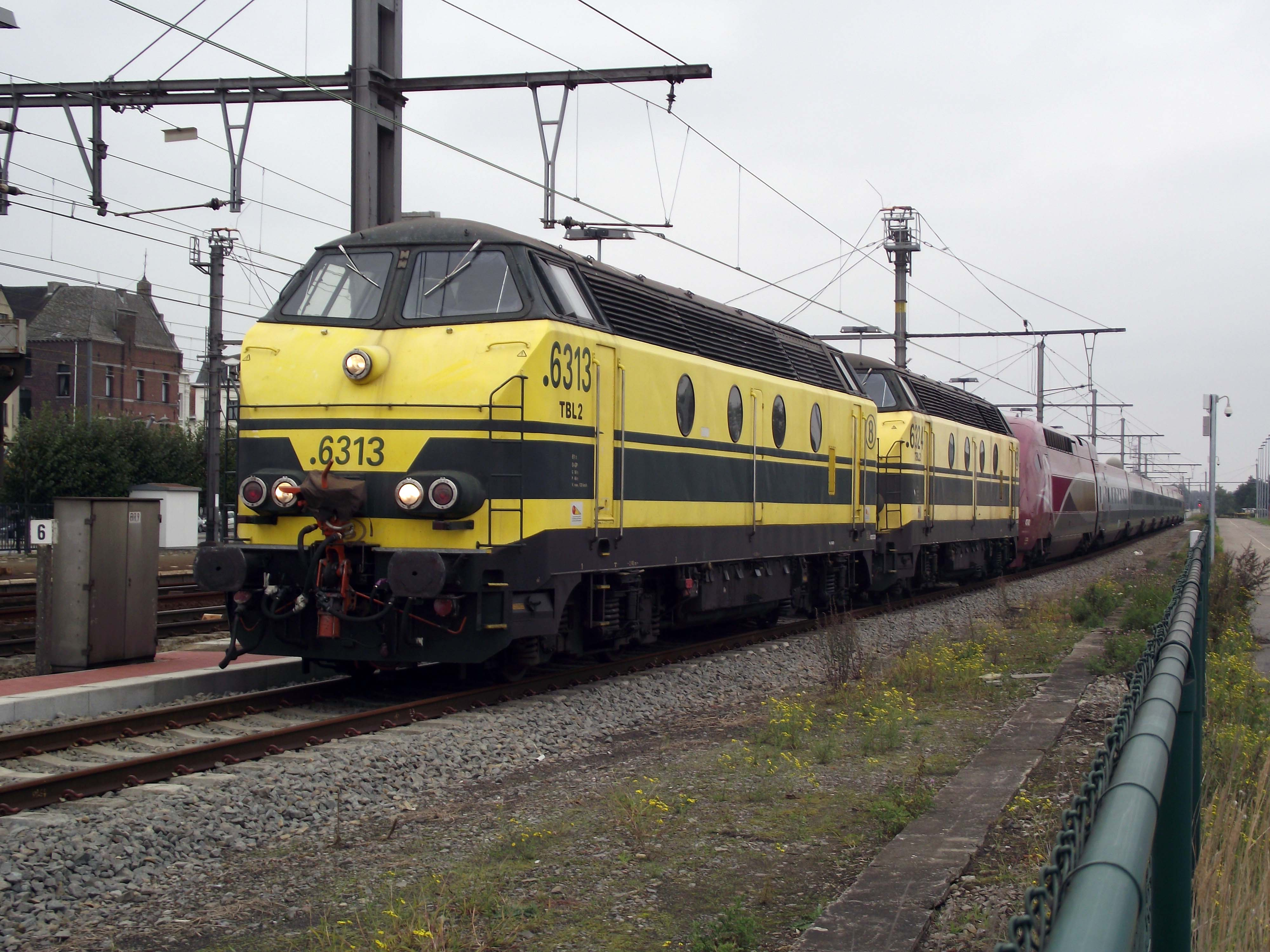 French Thalys 4342 unit being pulled by the 6313 6324 TL2 special diesel locs in Tienen on the classic line.